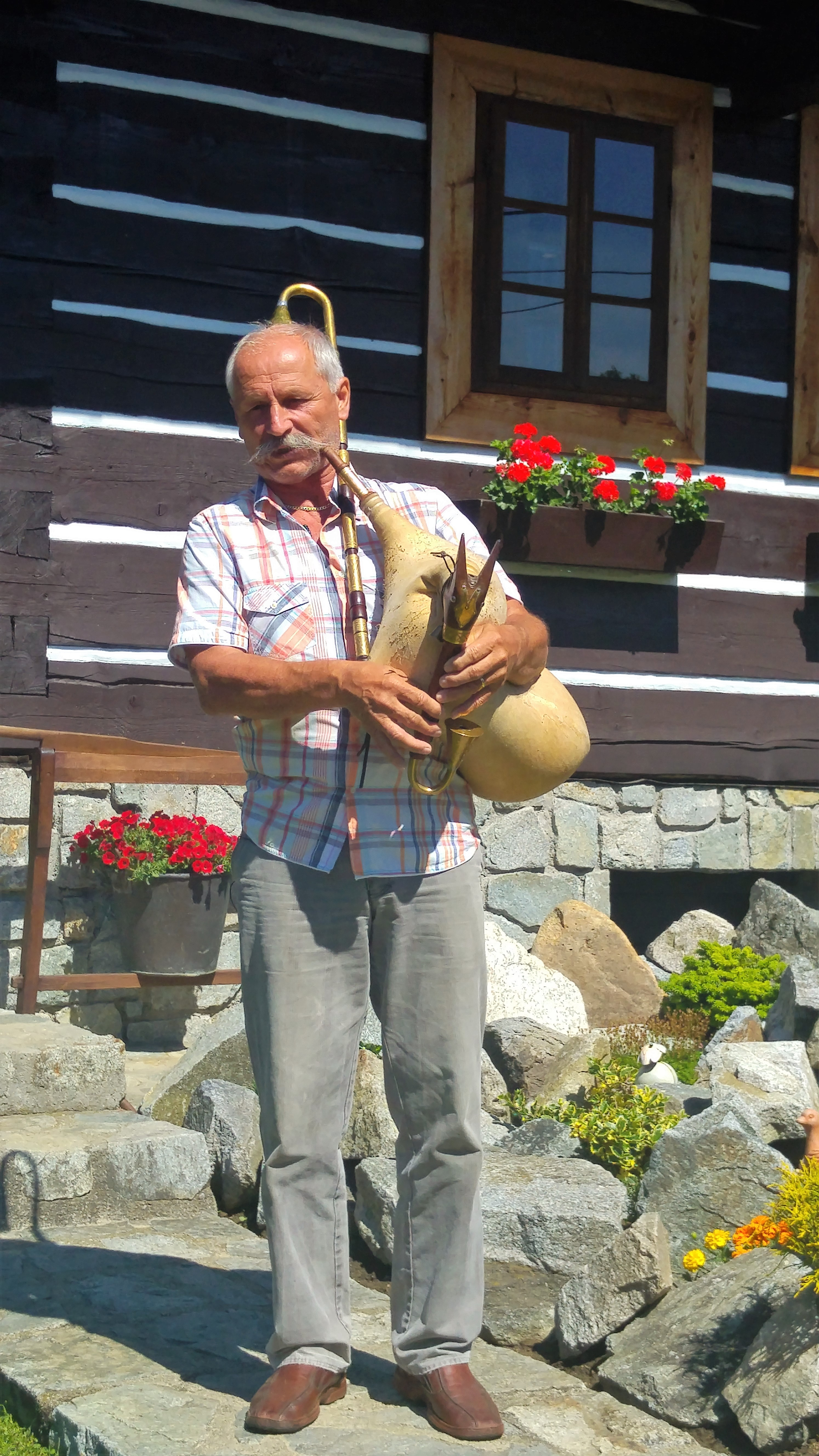 Ľubomír Párička - Slovakian bagpipe`s and traditional pipes` maker